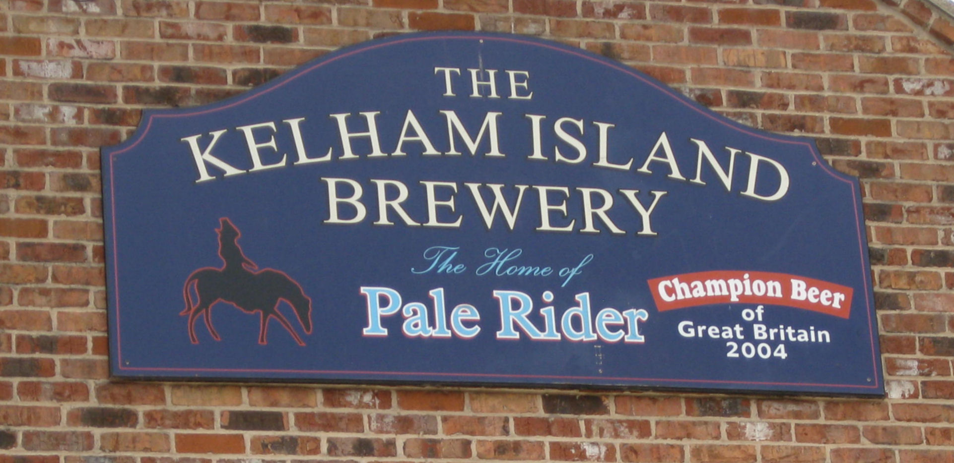 Kelham Island Brewery, 23 Alma Street, Sheffield, S3 8SA